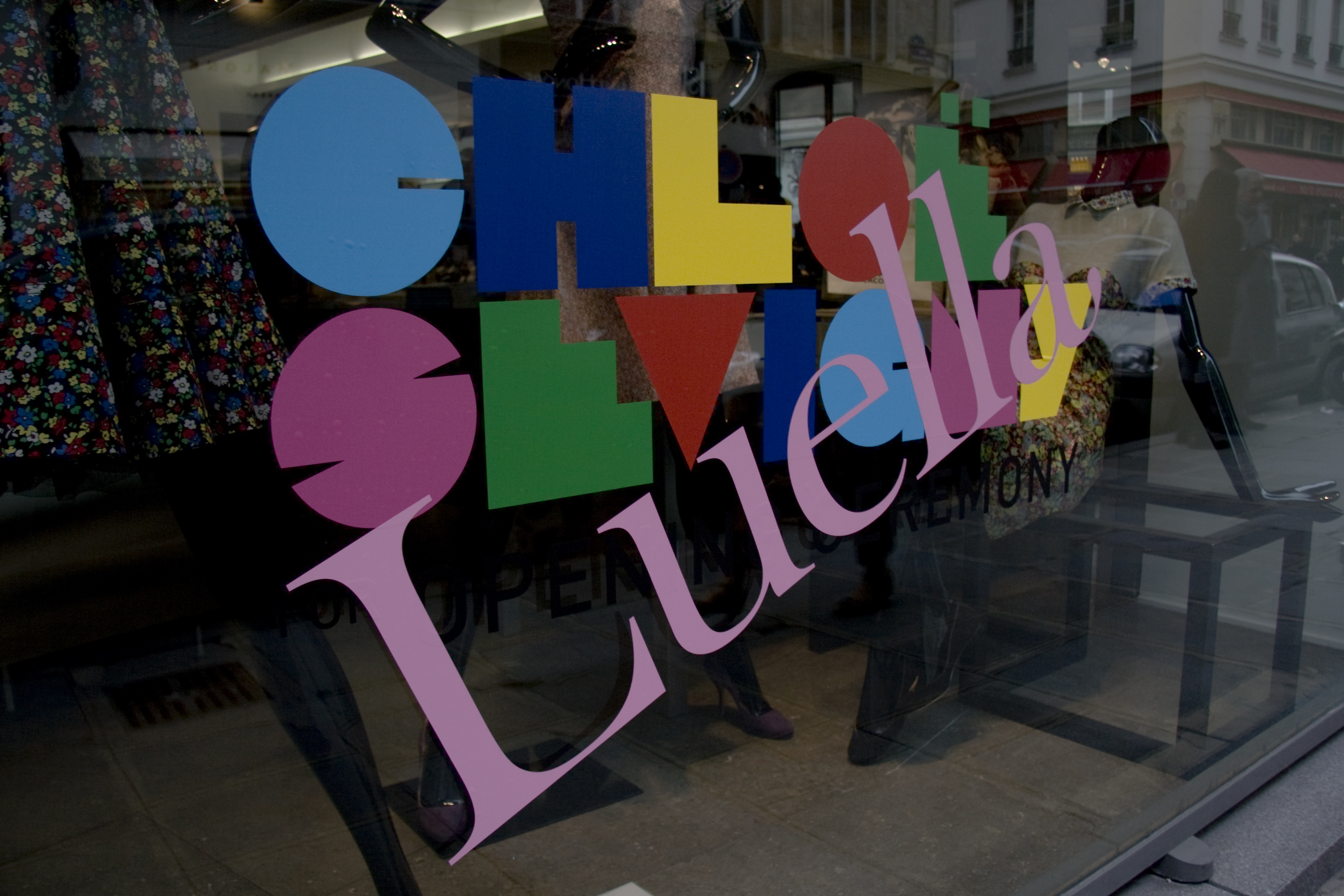 Photo of French fashion boutique Colette, featuring a window advertisement for Chloë Sevigny's 2008 collaboration with Opening Ceremony.